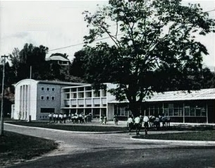 none